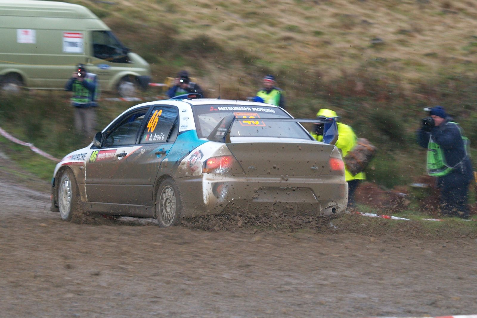 Armindo Araujo driving his Mitsubishi Lancer Evolution during 2007 Wales Rally GB.